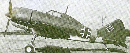 Italian Reggiane Re.2002 fighter at Taliedo prior to delivery to a Schlachtgruppe of the German Luftwaffe